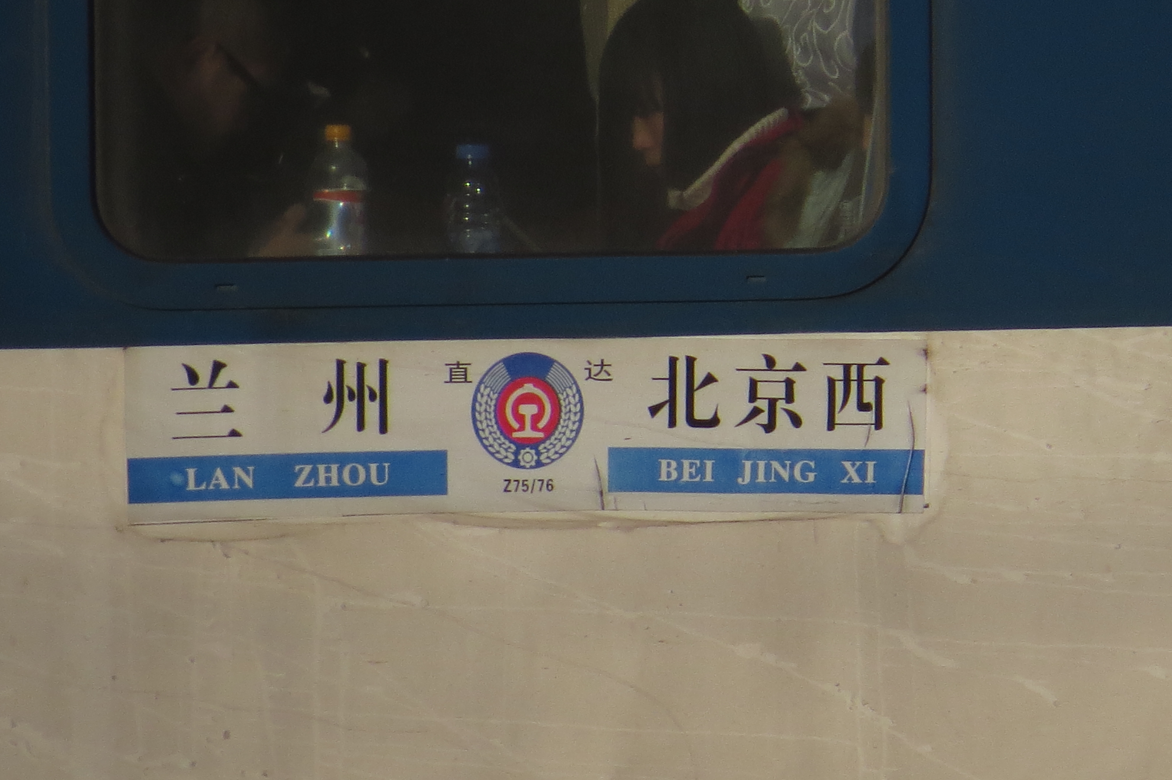 Departing for Lanzhou in the peak of Chunyun.